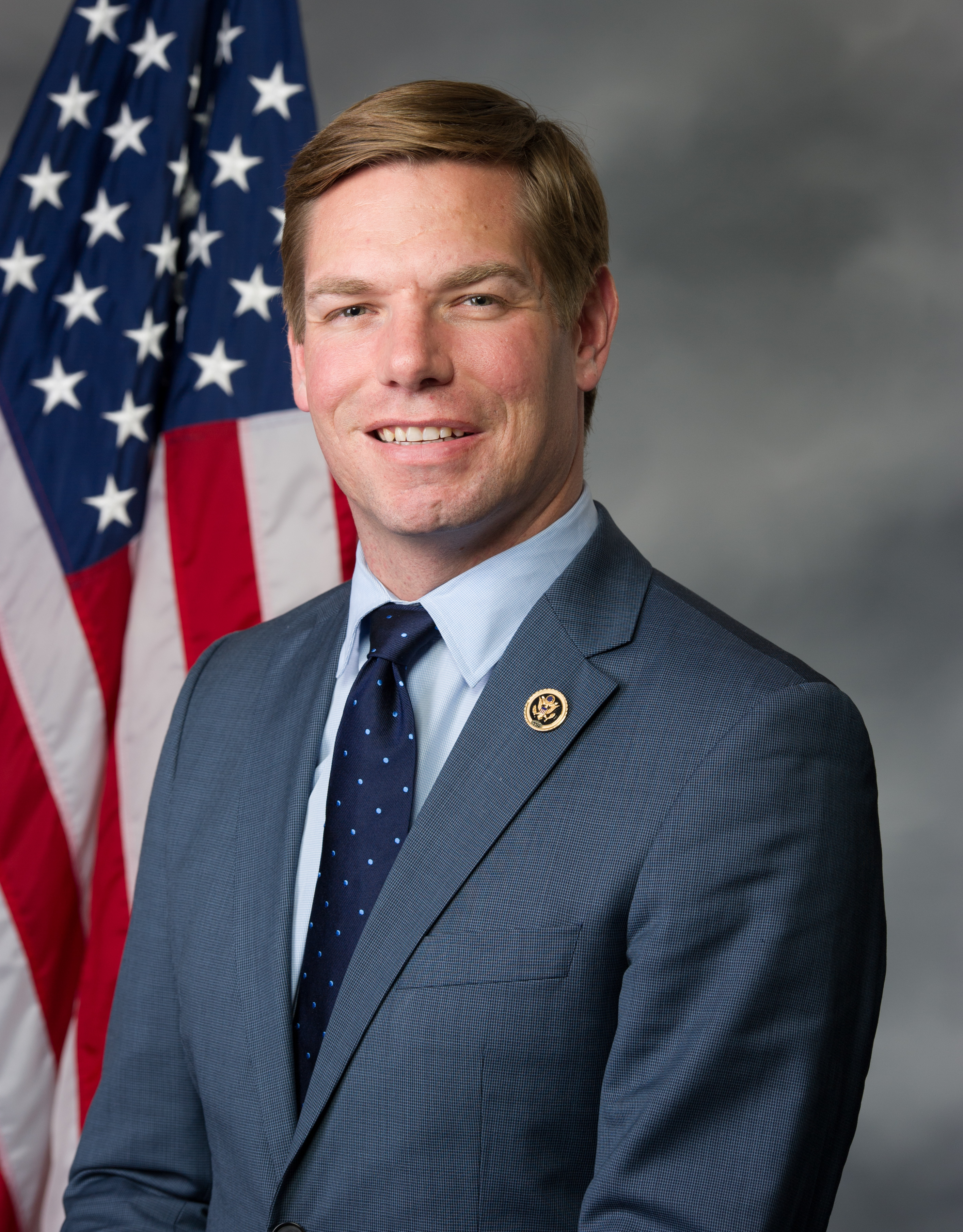 Eric Swalwell's official portrait for the 114th US Congress session.